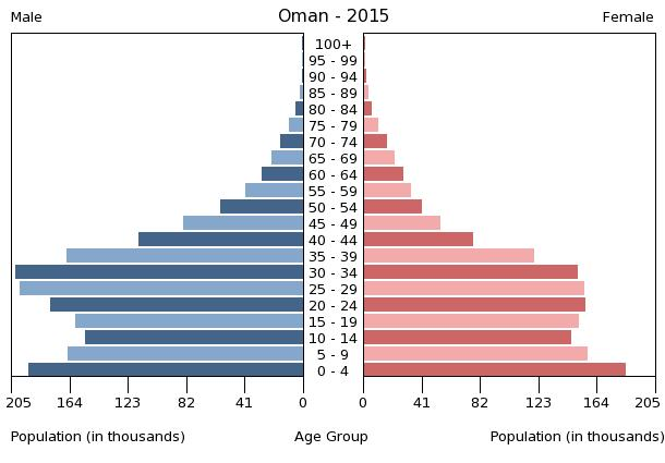 A population pyramid illustrates the age and sex structure of population and may provide insights about political and social stability, as well as economic development. The population is distributed along the horizontal axis, with males shown on the left and females on the right. The male and female populations are broken down into 5-year age groups represented as horizontal bars along the vertical axis, with the youngest age groups at the bottom and the oldest at the top. The shape of the population pyramid gradually evolves over time based on fertility, mortality, and international migration trends.